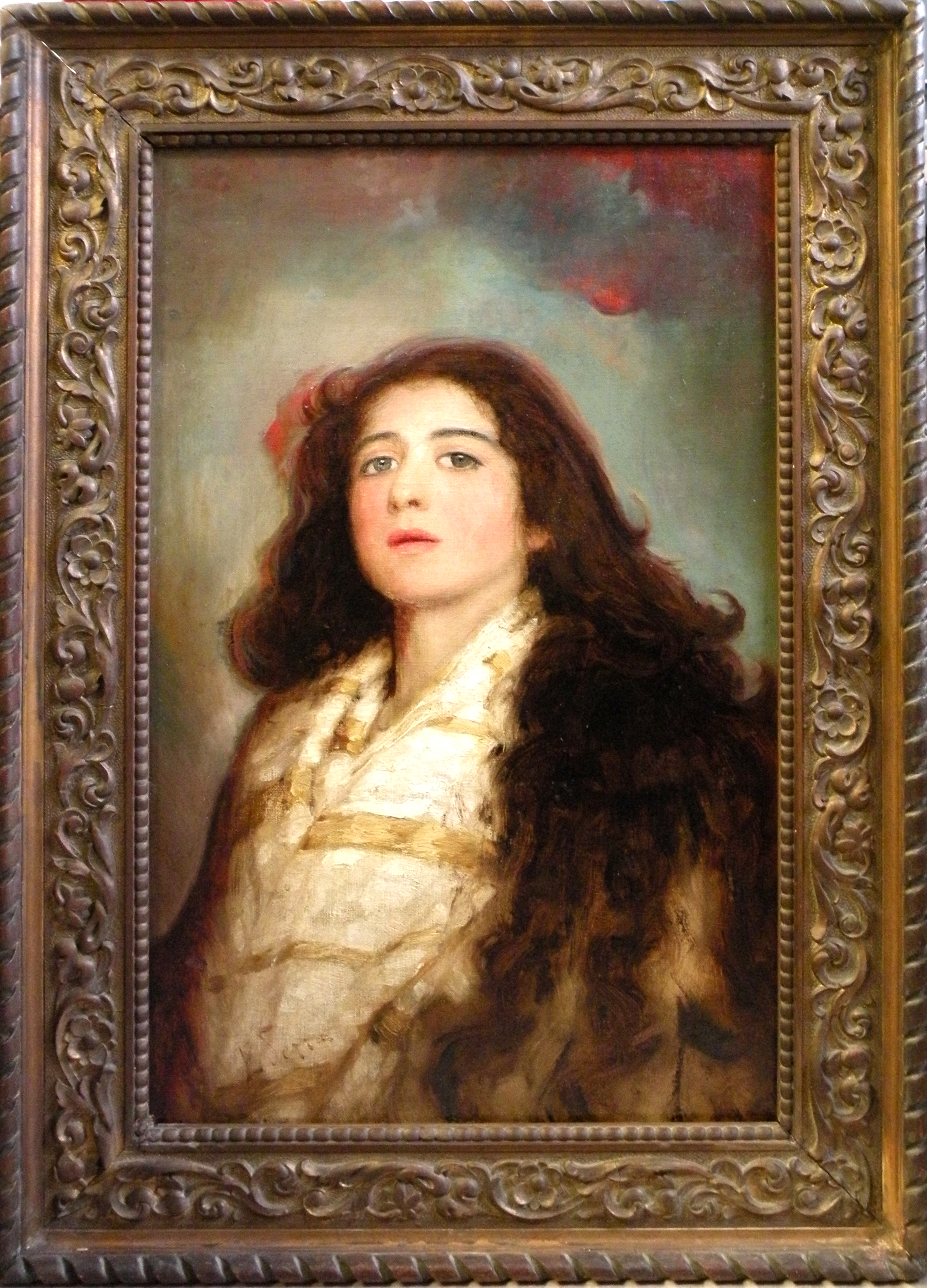 Ernesto Serra (1860-1915). Elda, portrait of a lady. Oil on canvas